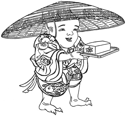 Tōfu-Kozō (豆腐小僧, spirit child carrying a block of tōfu) from the Bakemonochakutōchō (夭怪着到牒)